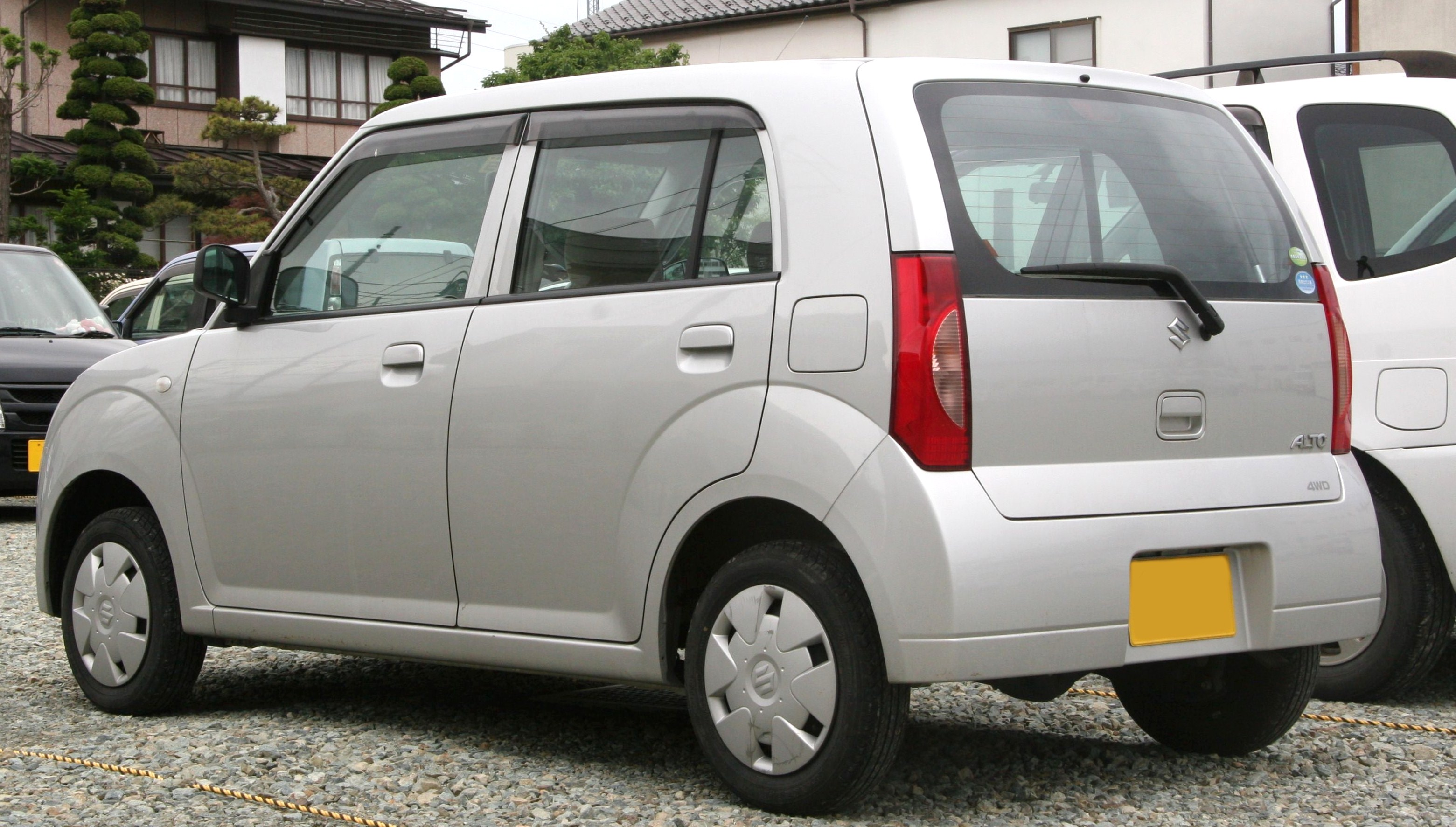 Suzuki Alto